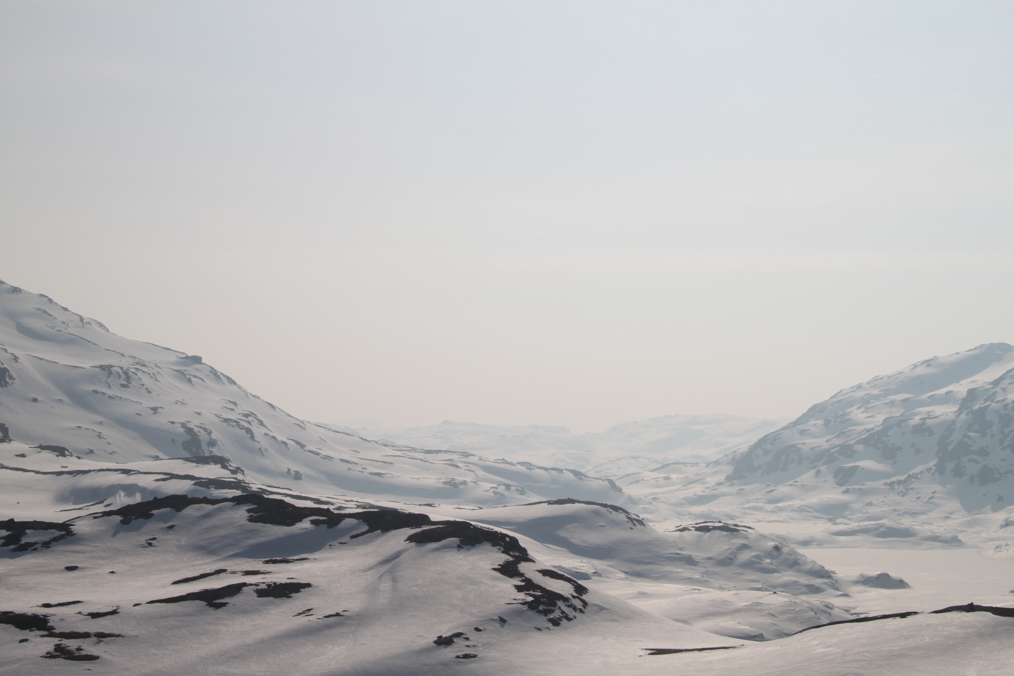 Hardangervidda during winter 2010/2011.